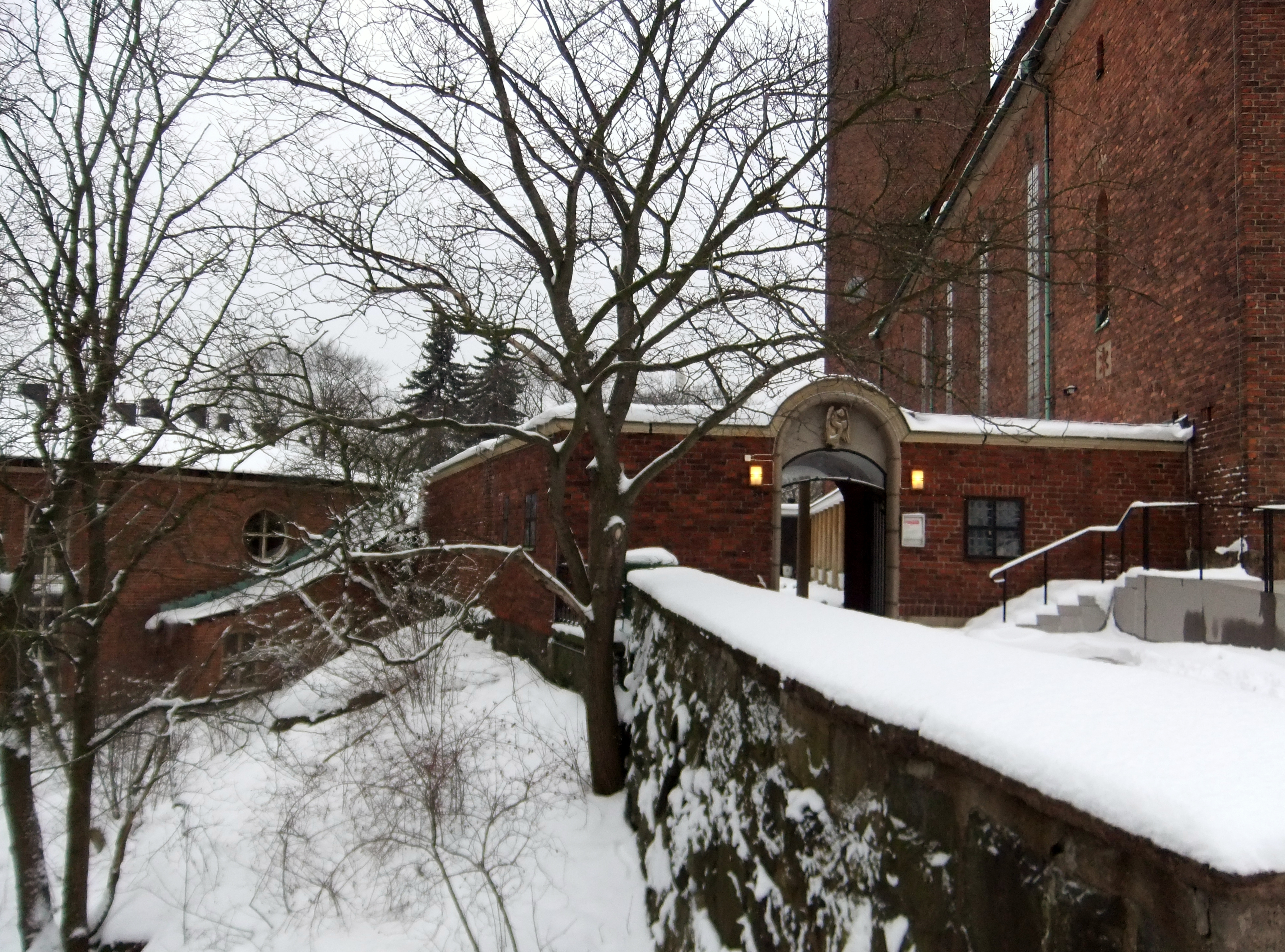 Columbarium next to Högalid Church in Stockholm, with underground tomb.